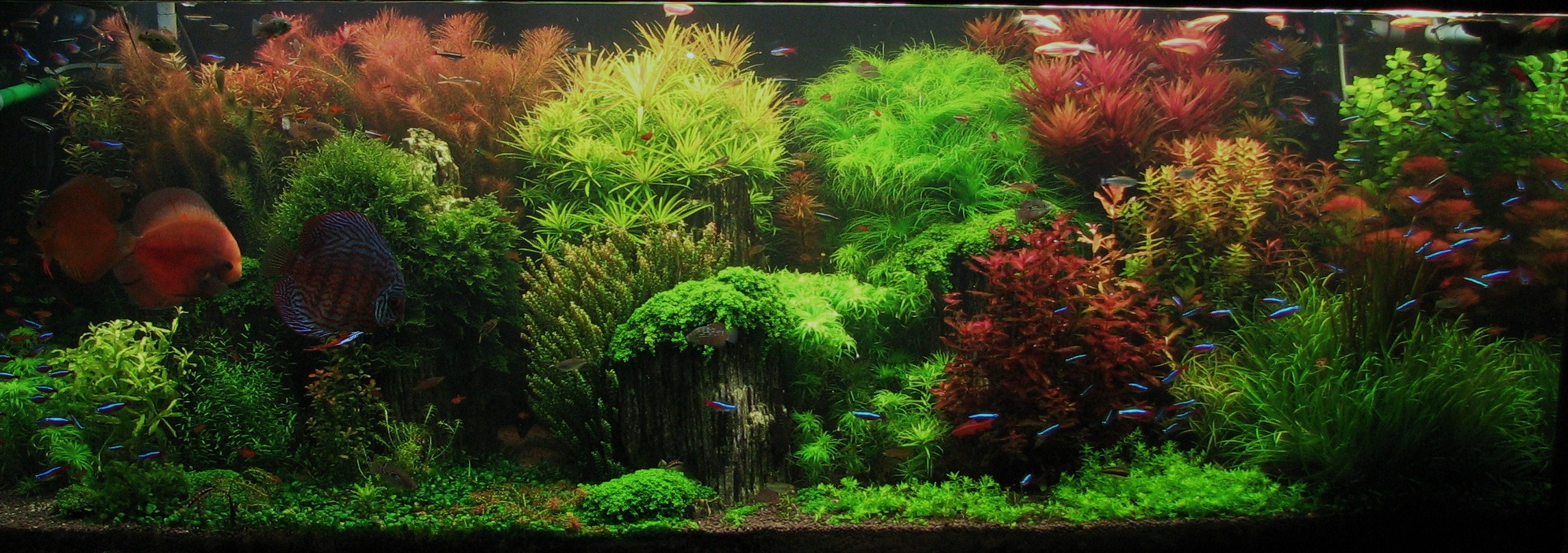 Photograph by Shay Fertig, Israel, of an aquascape that he created. Image illustrates an excellent example of a Dutch-style aquascape design.